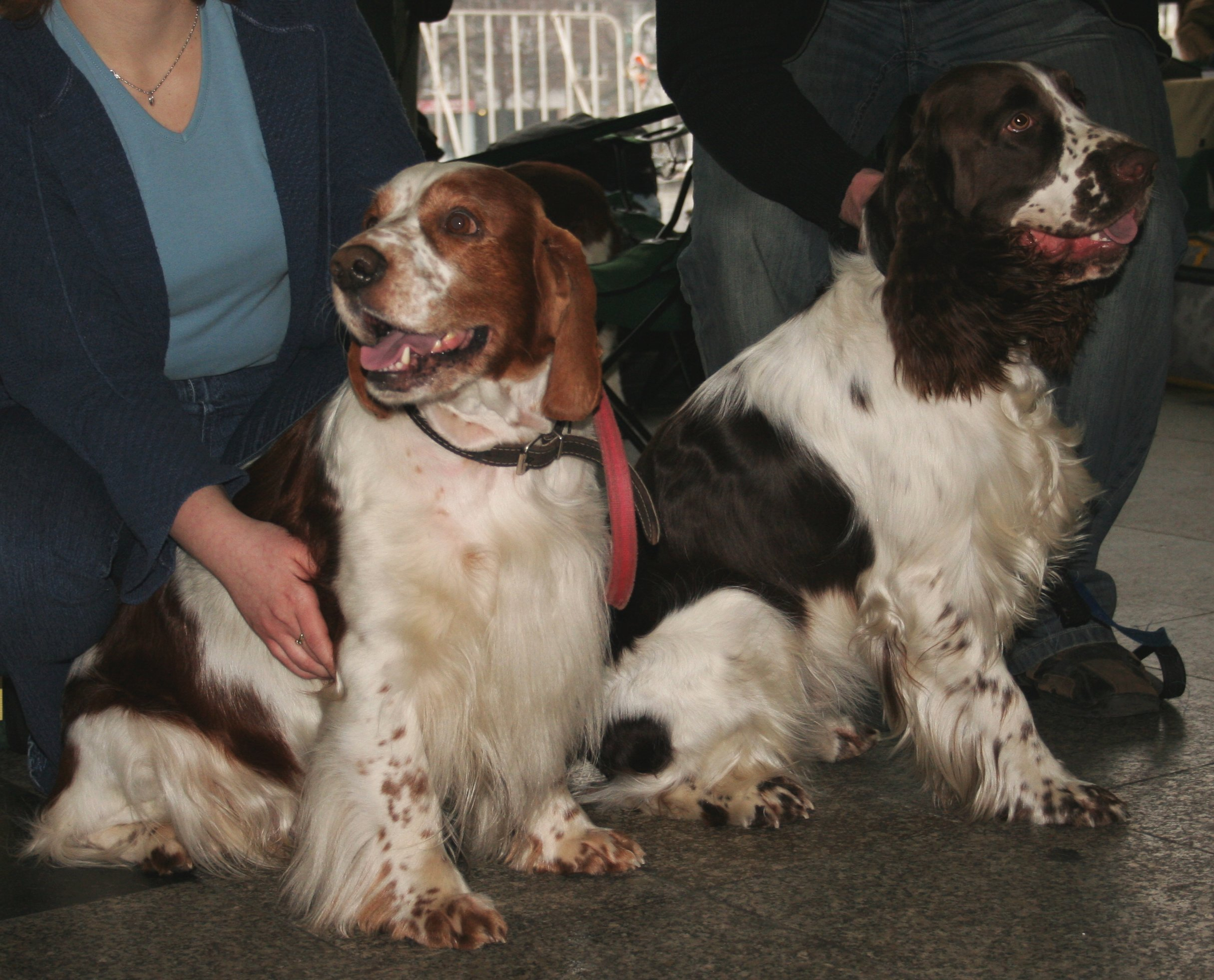 Welsh and English Springer Spaniels during dogs show in Katowice, Poland